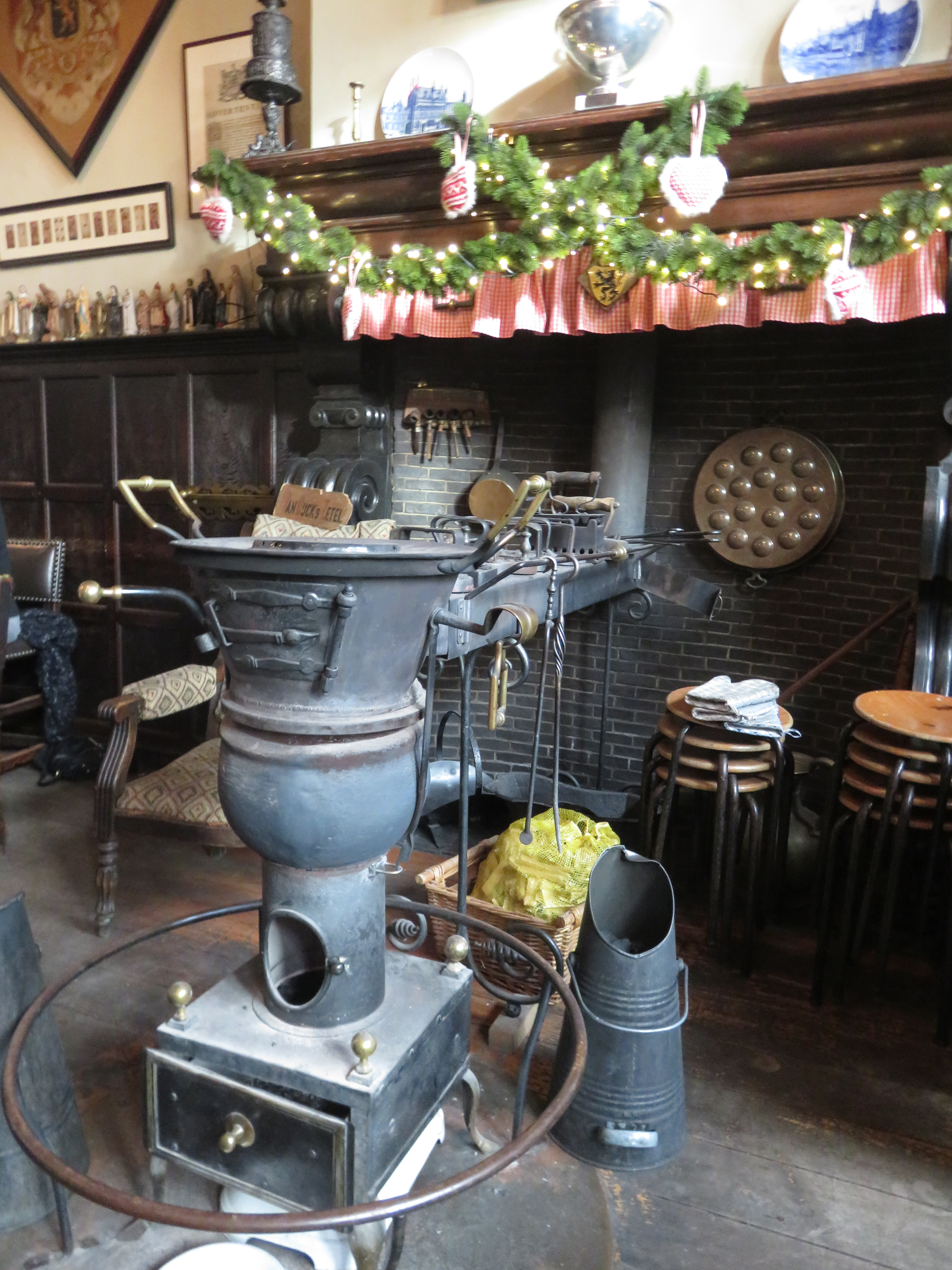 Leuvense stoof, Café Vlissinghe (Brugge)